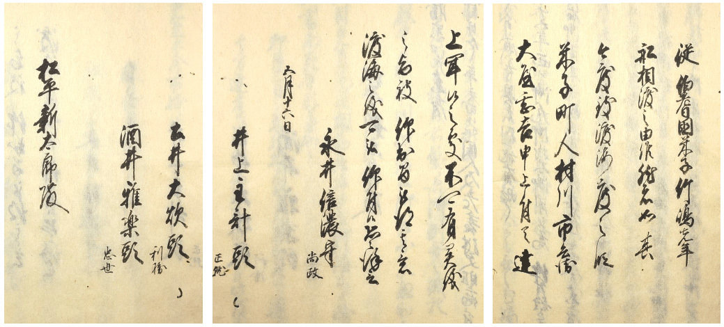 The license for crossing the sea to Ulleungdo by Edo syogunate.